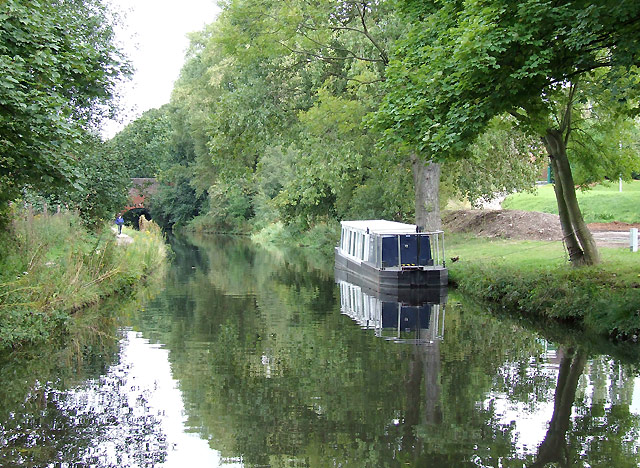 Worcester and Birmingham Canal near Birmingham University The canal is approaching Bridge No 83, and passing the University athletics track on the right. The narrowboat "Ross Barlow" moored ahead is a very rare and unusual vessel. It is powered by hydrogen, so its only emission is water. .